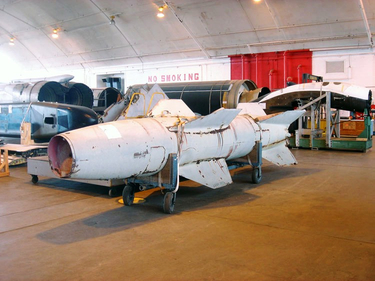 The German "Wasserfall" surface-to-Air missile from World War 2nd in National Museum of the U.S. Air Force.